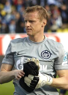 Russian goalkeeper Vyacheslav Malafeev